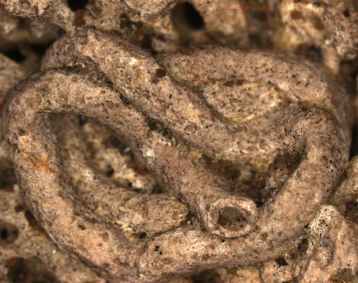 Glomerula gordialis from the Upper Cretaceous of Germany